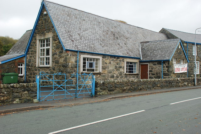 Ysgol Gynradd Llanystumdwy Primary School In October 2007 Gwynedd Council began to consider plans for the reoganisation of primary schools in the county. 29 schools were earmarked for closure and most of the rest would be "federalised" or combined into new schools. Llanystumdwy school, which was attended by Lloyd George is one which is threatened with closure. A vigorous campaign has already started to fight the plans.